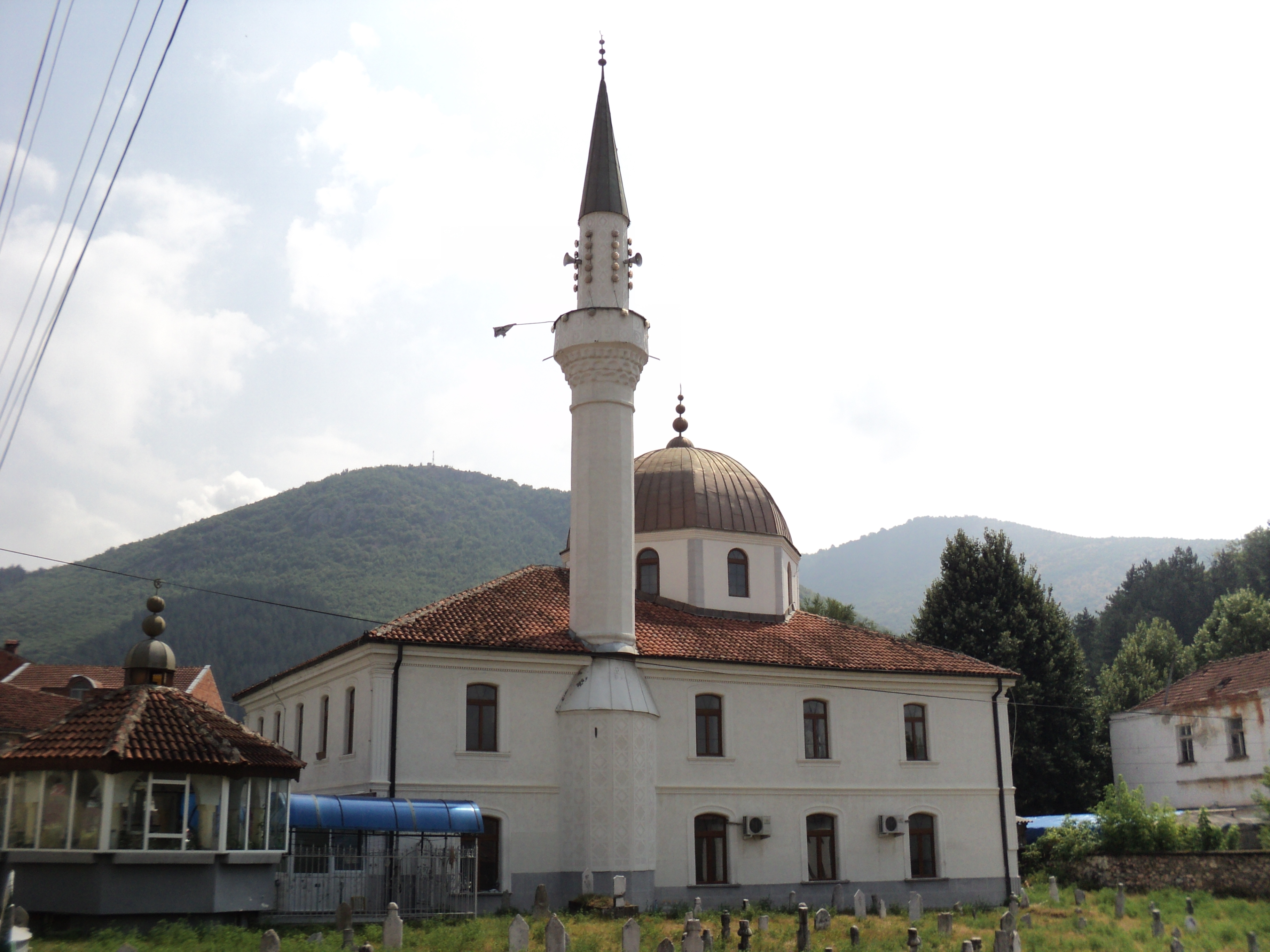 Mosque in the center of Kičevo.